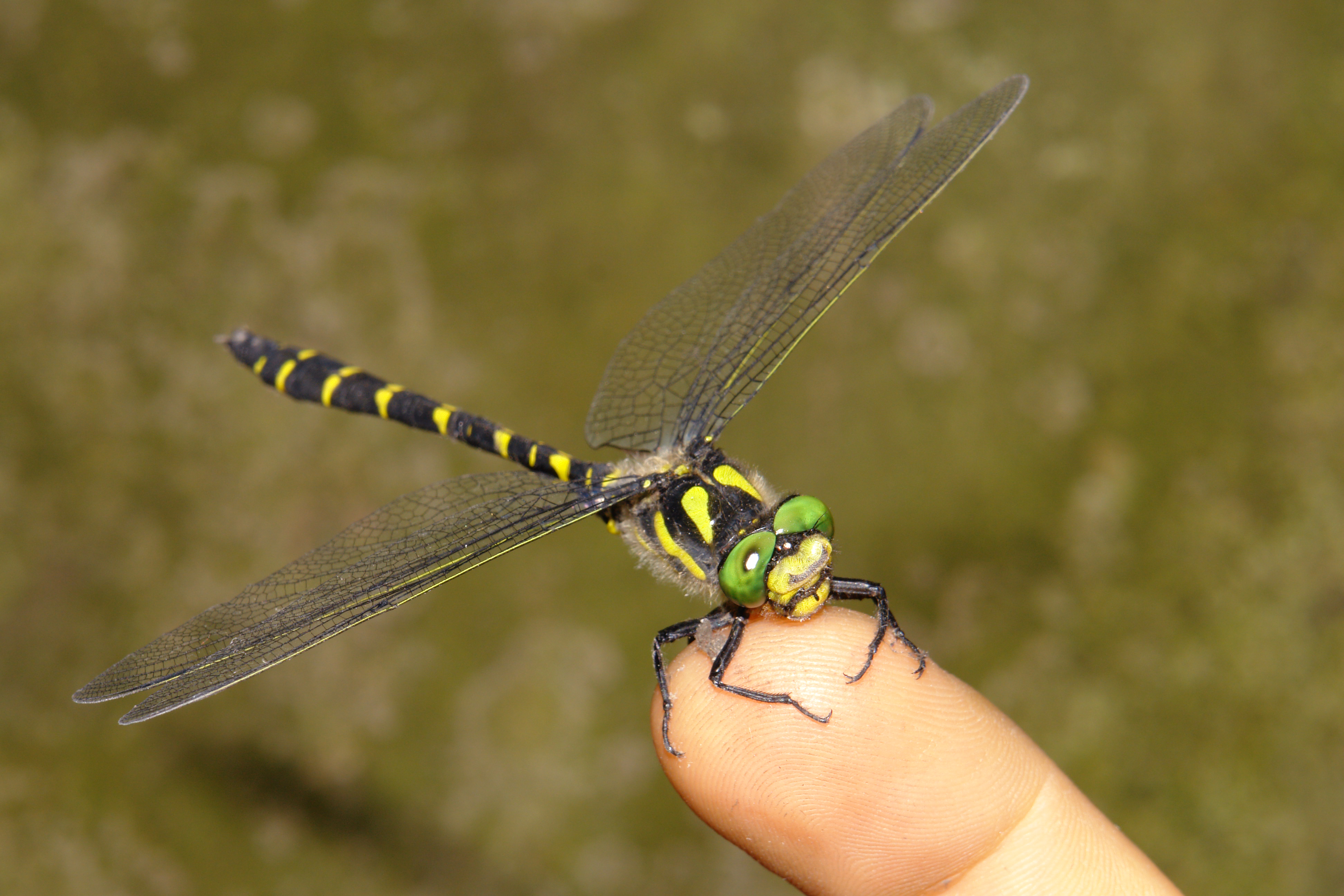 a specimen of Cordulegaster heros. I found it in June, 2006, near Miramare's park in Trieste. In the same year some academics announced that have found a population of this species in a little stream in Trieste, for the first time in Italy. This species is the largest dragonfly in Europe, females having a wingspan up to 115 mm and a body length up to 89 mm. link: "An urban population of Cordulegaster heros Theischinger, 1979 in Italy"